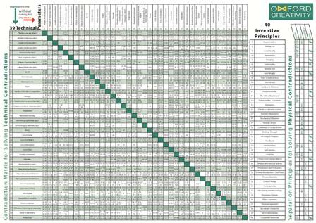 Contradictions Matrix designed with panel of box principles use